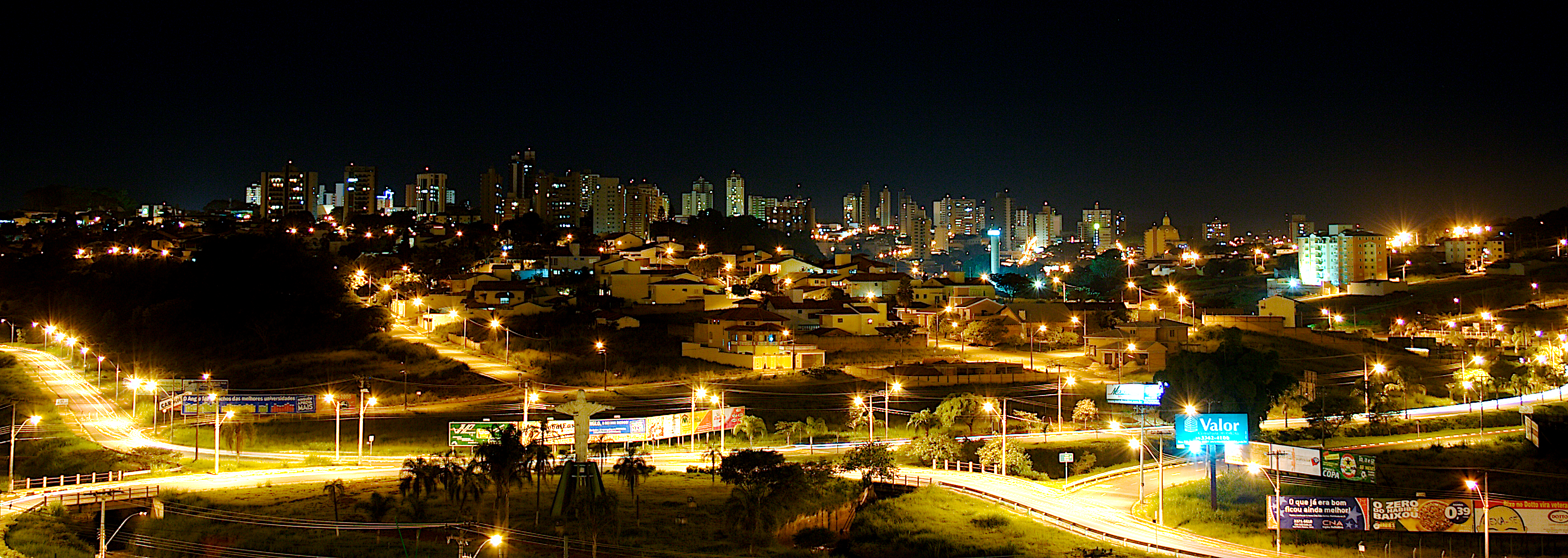 If you look at the left botton - near the center - of the image you will see a small replica of the Cristo Redentor. There are no lights around it, but it is in a very bad state anyway...